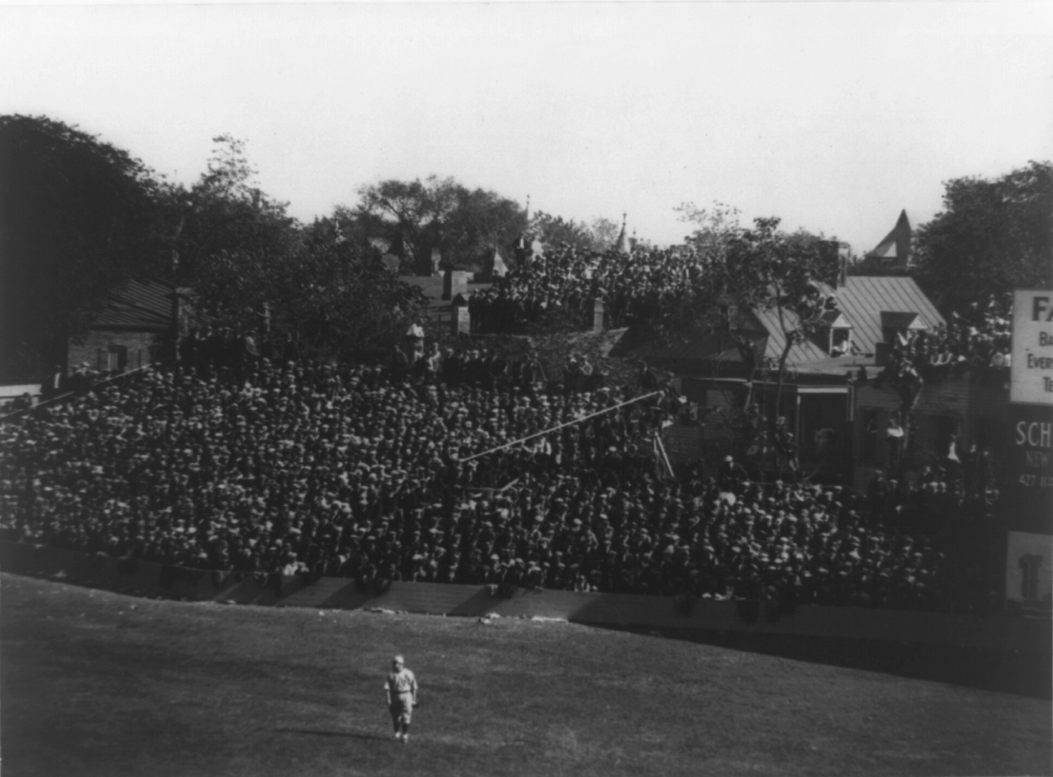 View of spectators and one player on field at Griffith Stadium, Washington D.C.